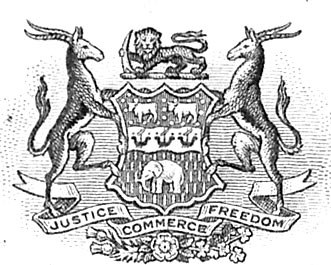 Coat of arms of the British South Africa Company, c1940. Taken from halfpenny stamp, Southern Rhodesia 1940.